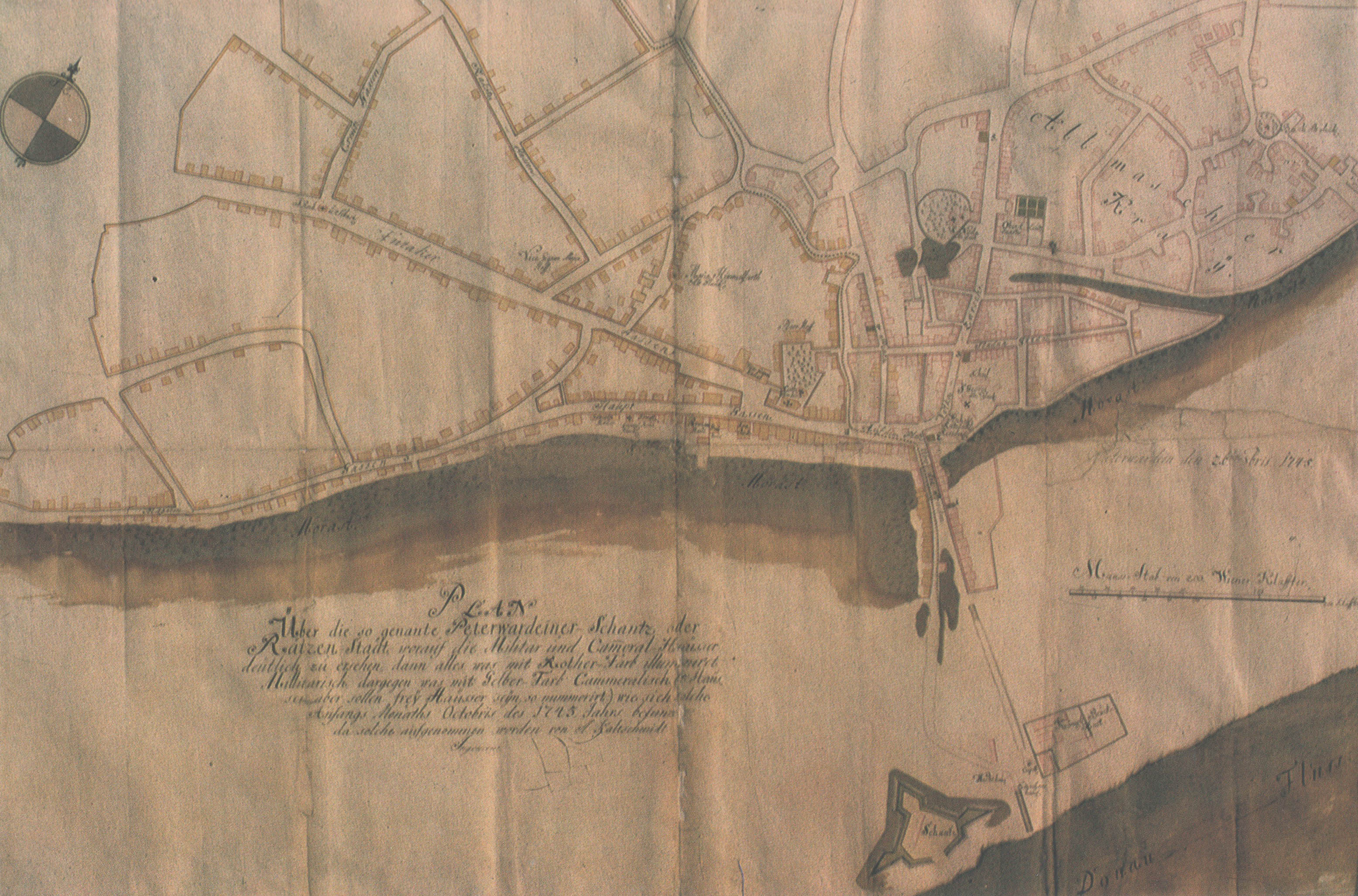 Map of Novi Sad from 1745.